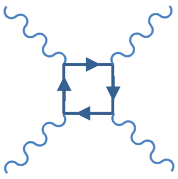 Feynman diagram for photon-photon scattering; For a discussion, see Kurt Gottfried, Victor Frederick Weisskopf (1986) Concepts of particle physics, Volume 2, Oxford University Press, p. 266 ISBN: 0195033930.